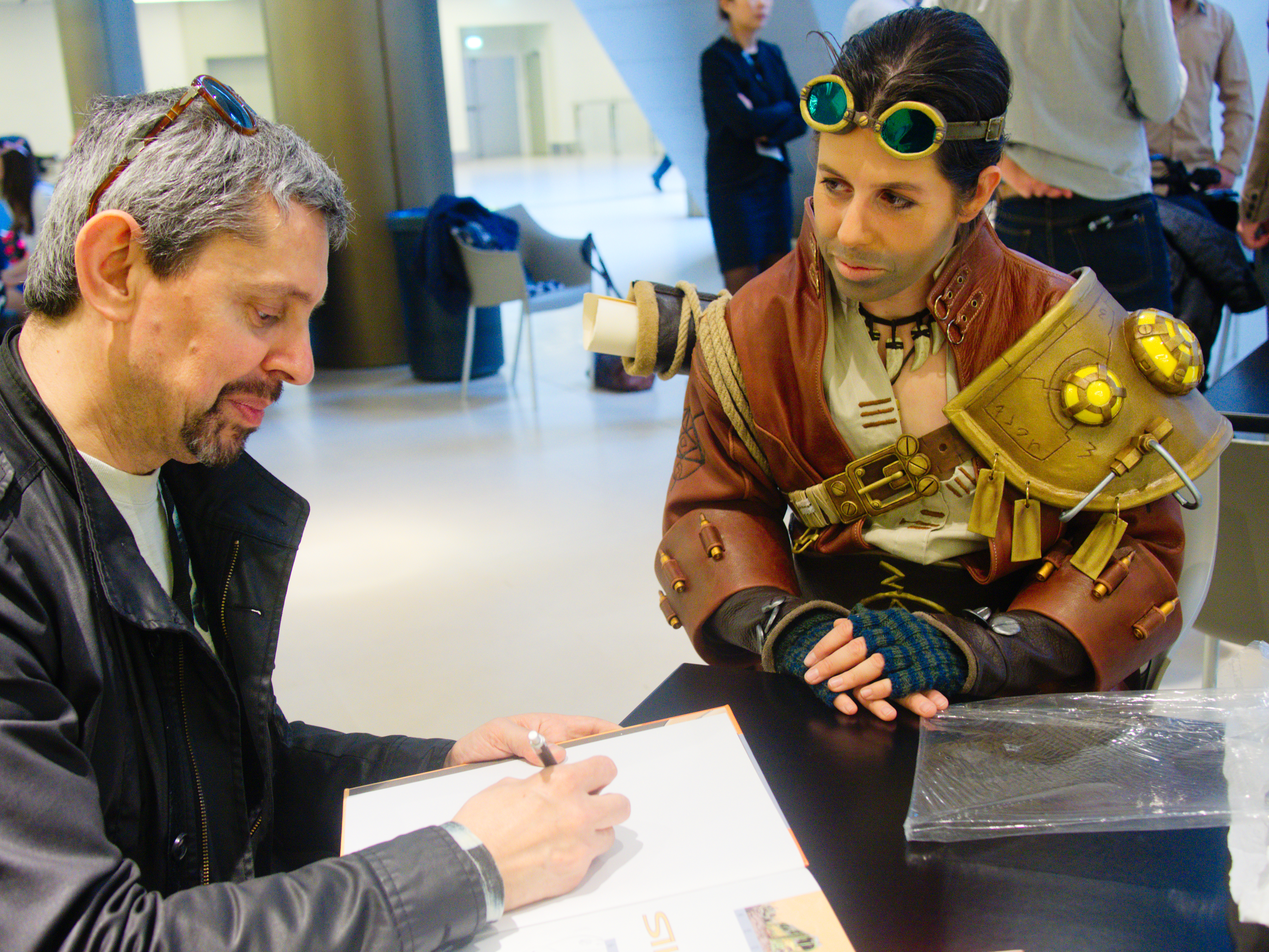 photograph taken at the 2015 edition of the "Monaco Anime Game International Conferences" (MAGIC) organized by Shibuya International in Monaco.